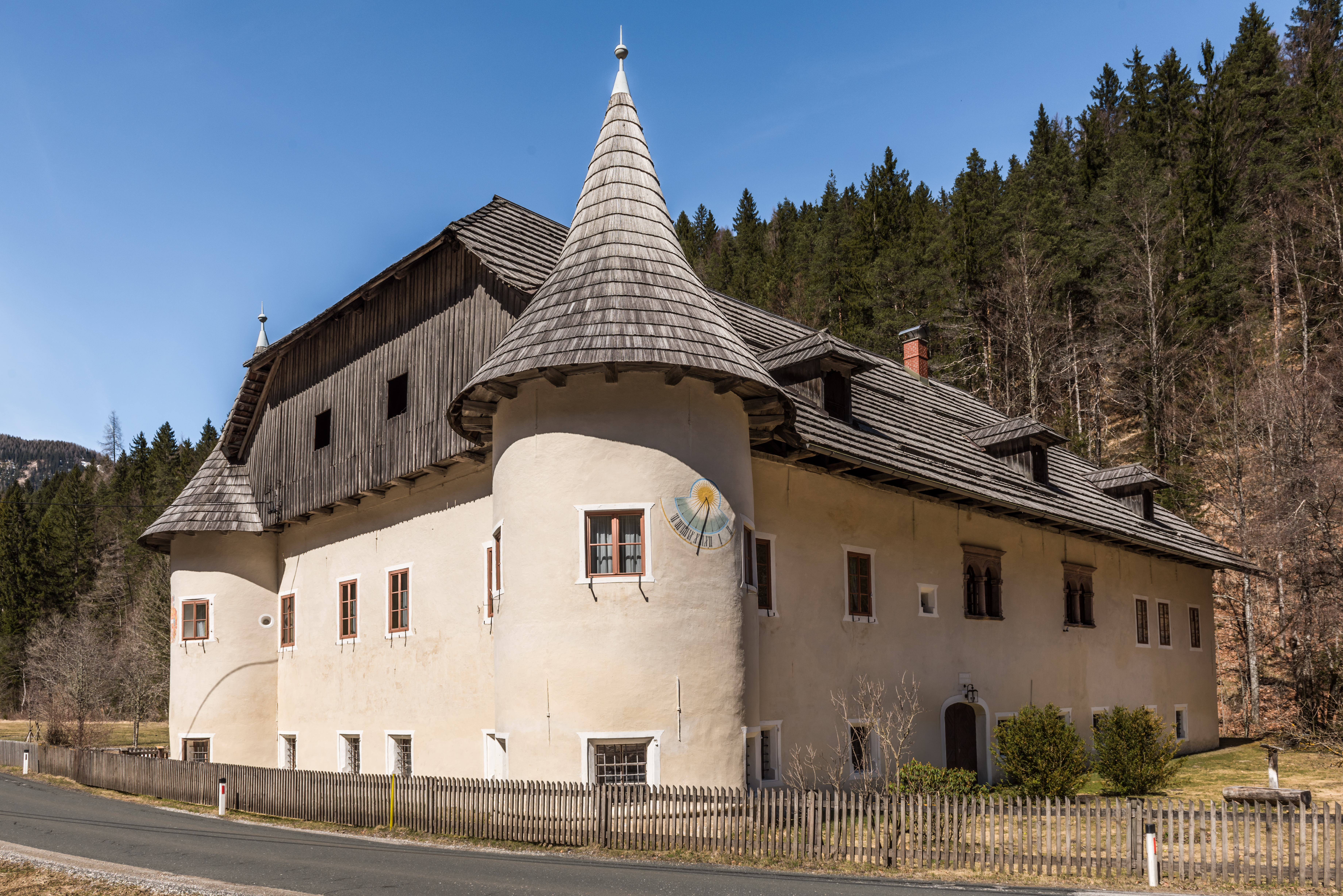 Castle in Kreuzen #32, market town Paternion, district Villach Land, Carinthia, Austria, EU